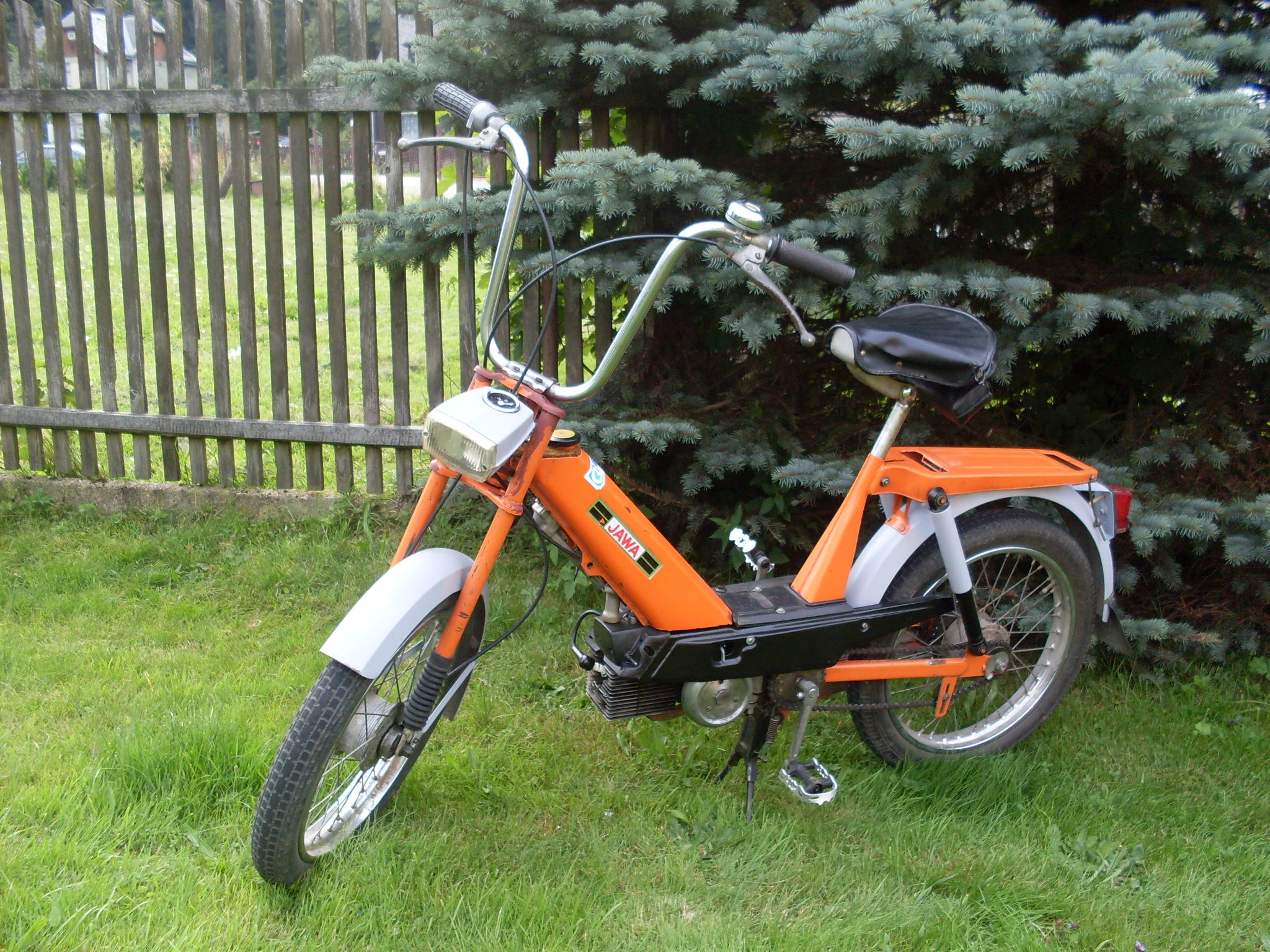 Babetta 207.300